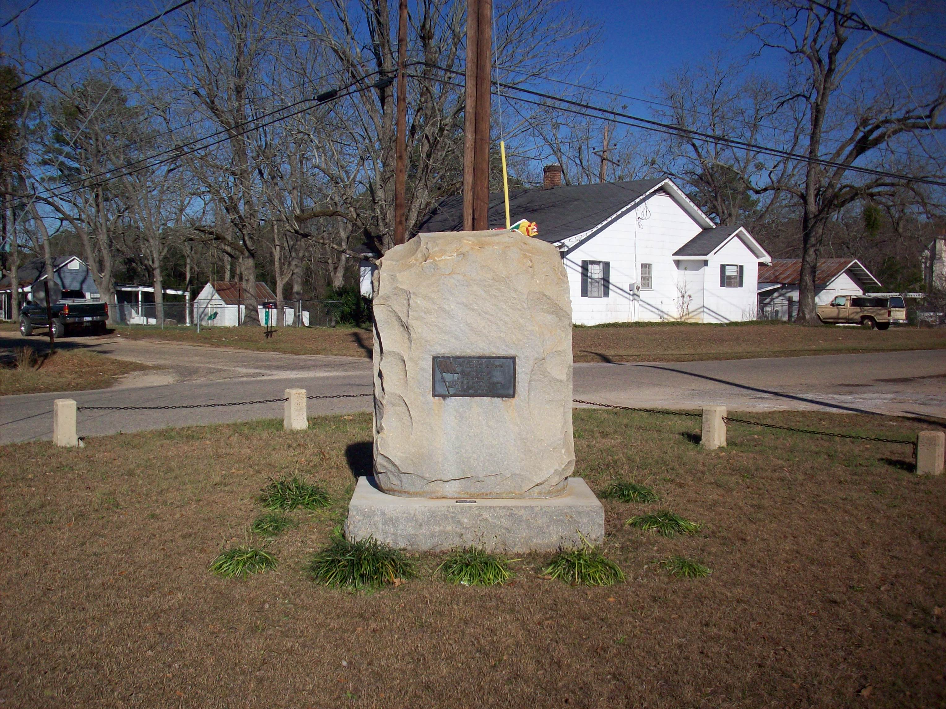 Civil War monument in Newton, Alabama. Dedicated to local Home Guardsmen who repulsed an attack by Company F of the 1st Florida Cavalry (US) in March, 1865.